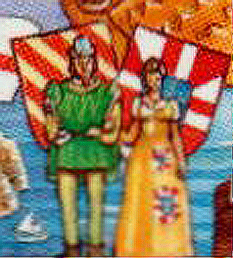 Rainier II of Monaco and his 2nd wife